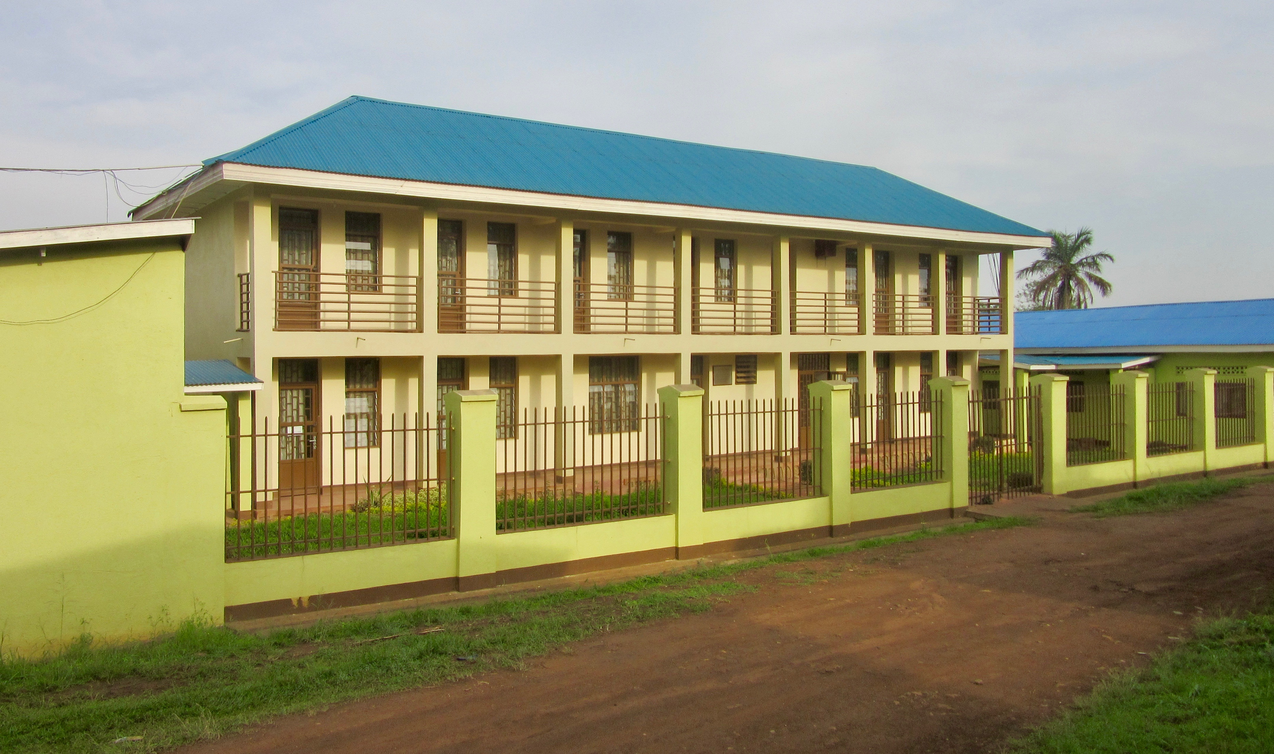 Muchmore Doctoral Building